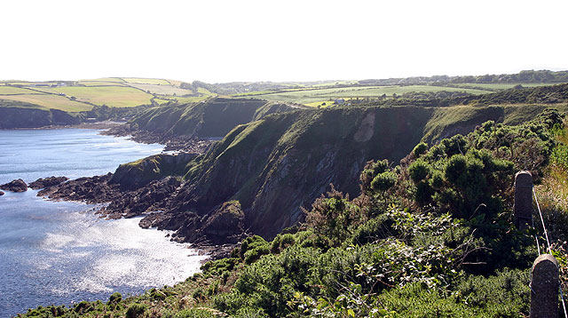 Keristal. Looking W from the Marine Drive at SC357731 towards Port Soderick.